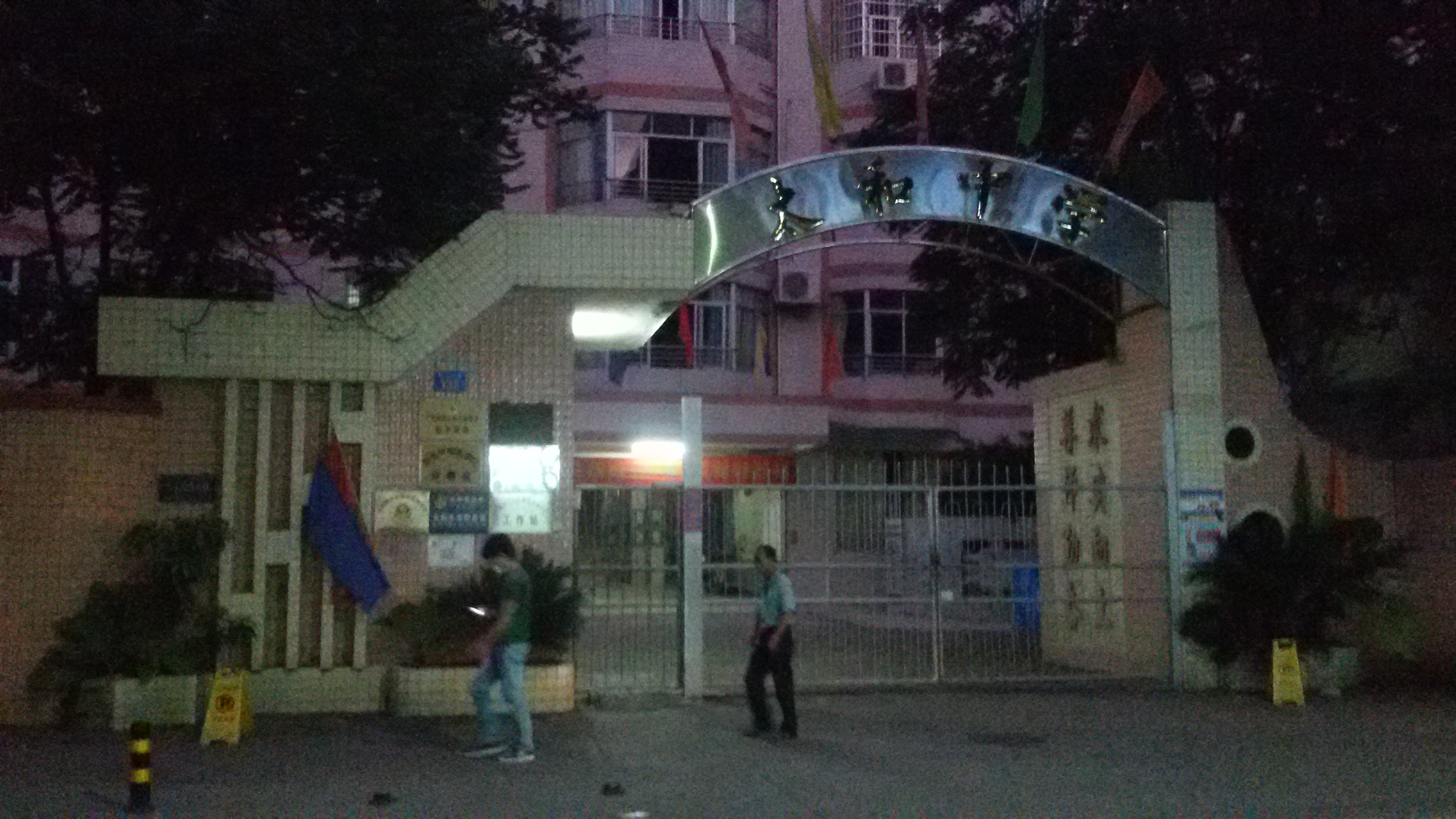 Baiyun Taihe Middle School (secondary school)